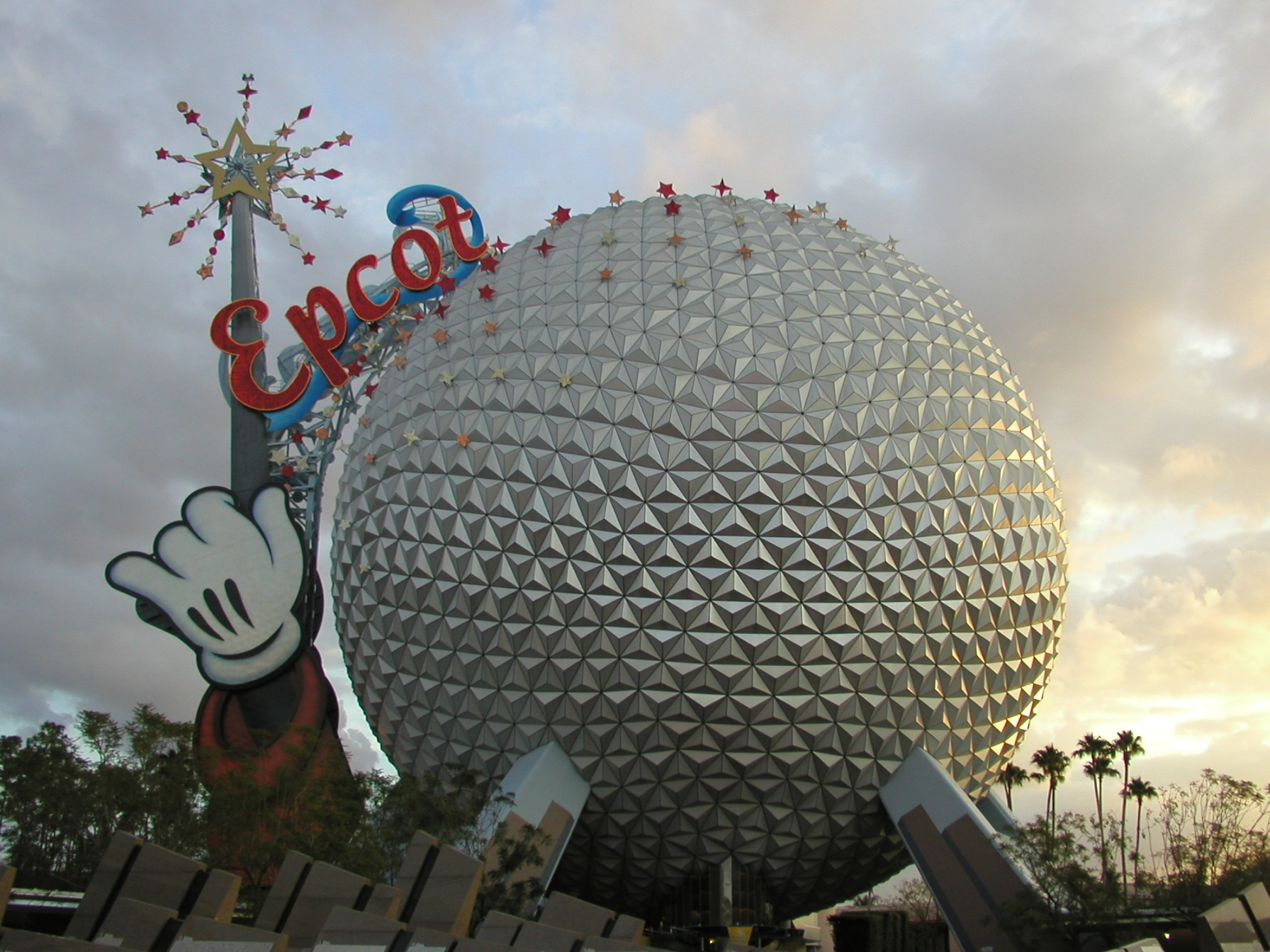 The front of Spaceship Earth at Epcot at Walt Disney World on an overcast day.